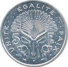 5 Djiboutian Francs in 1991 Reverse